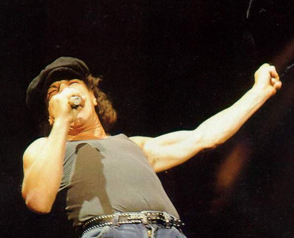 Brian Johnson in Bercy.